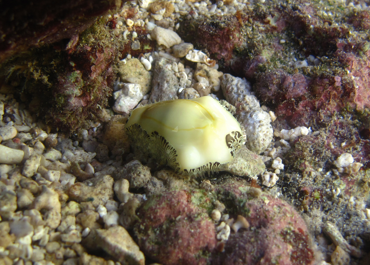 A live money cowry (Monetaria moneta) in Réunion island lagoon.